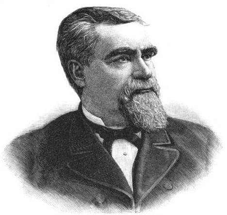 Oscar S. Gifford, South Dakota Congressman